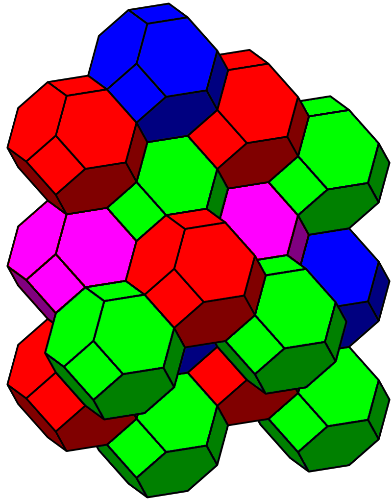 Image for Bitruncated_cubic_honeycomb - 4 colored truncated octahedron cells for original cells and vertices.